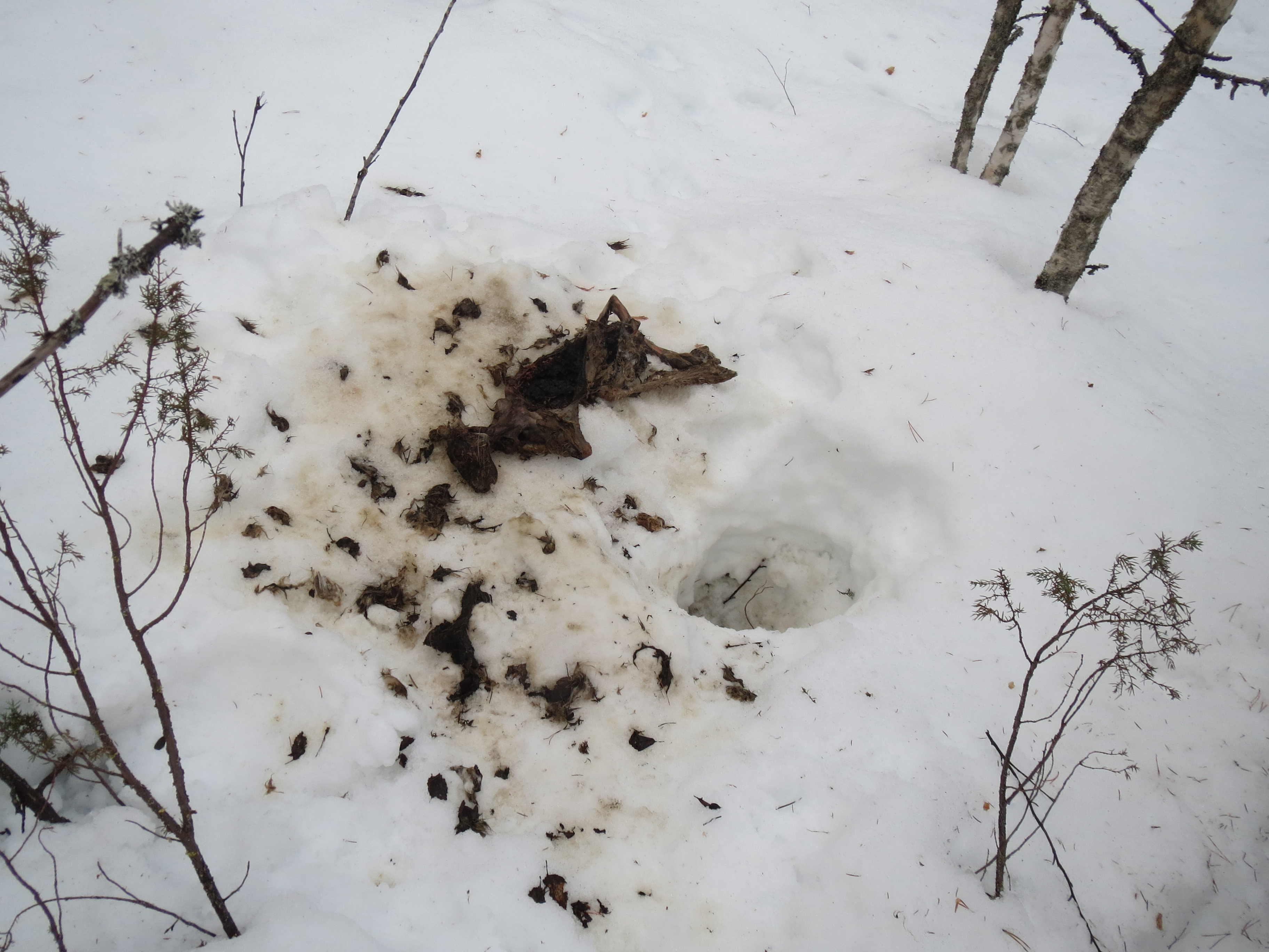 Remnants of a hare, eaten by wolverine